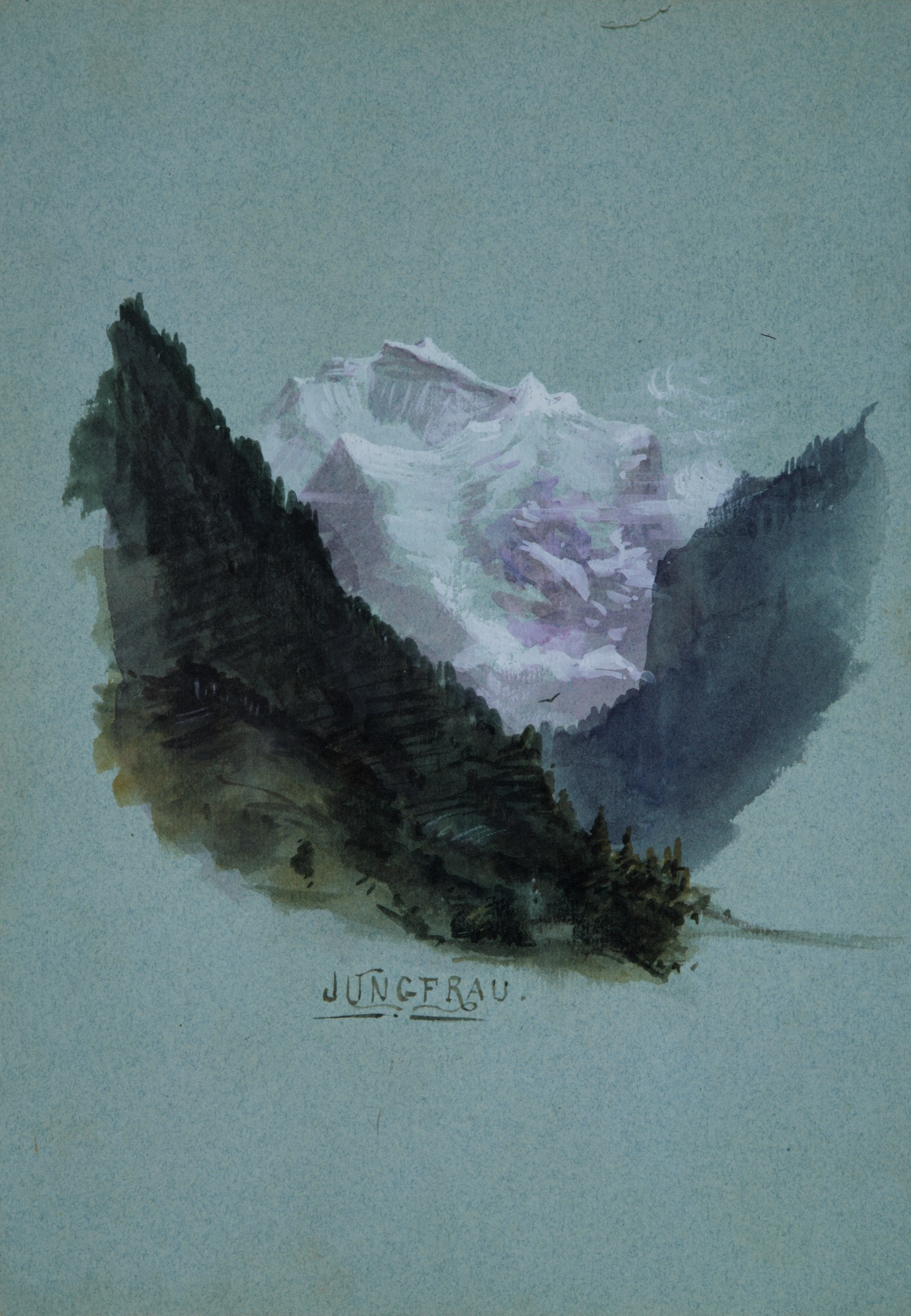 Watercolor; Drawings